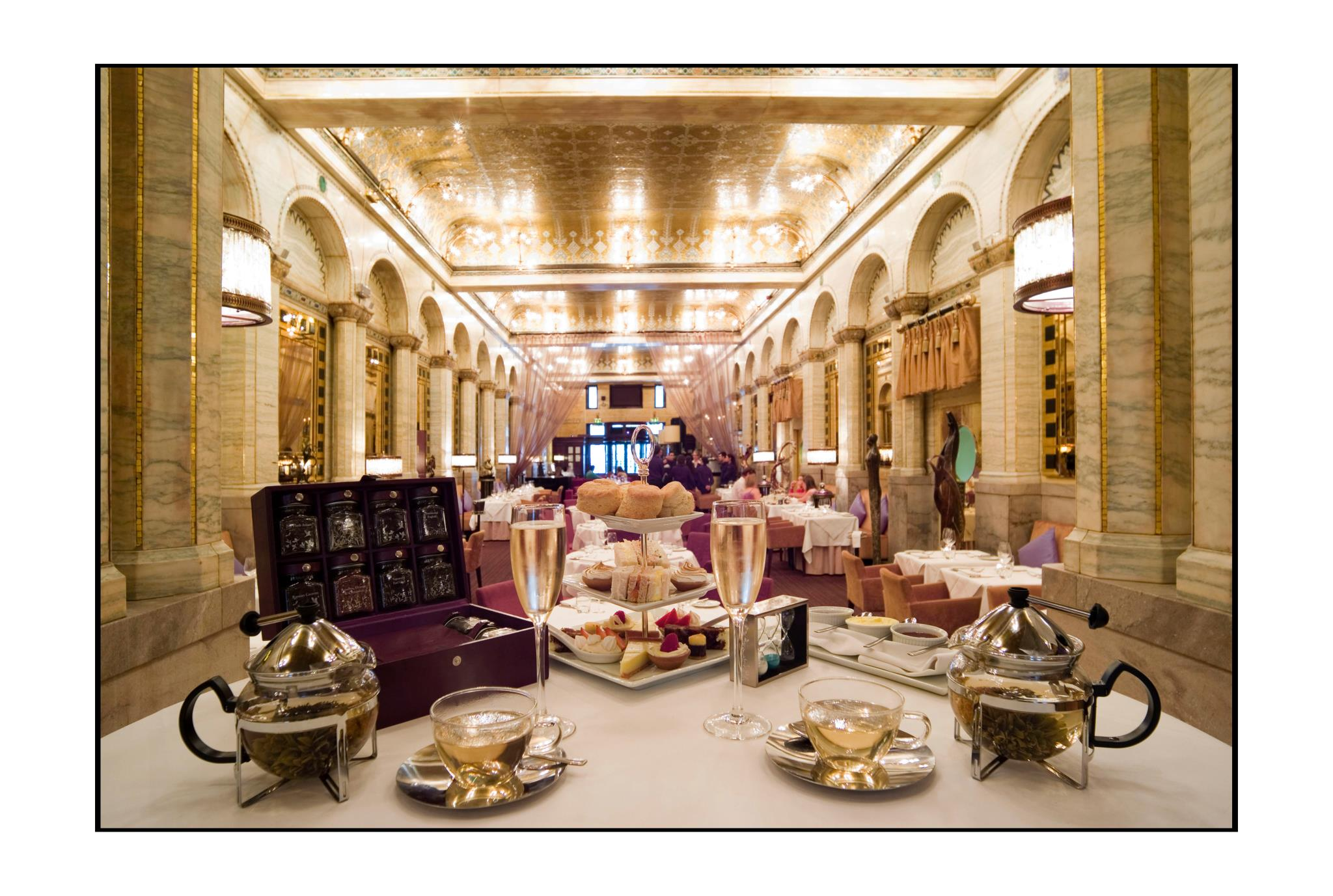 interior of criterion restaurant in piccadilly circus. Displays afternoon tea